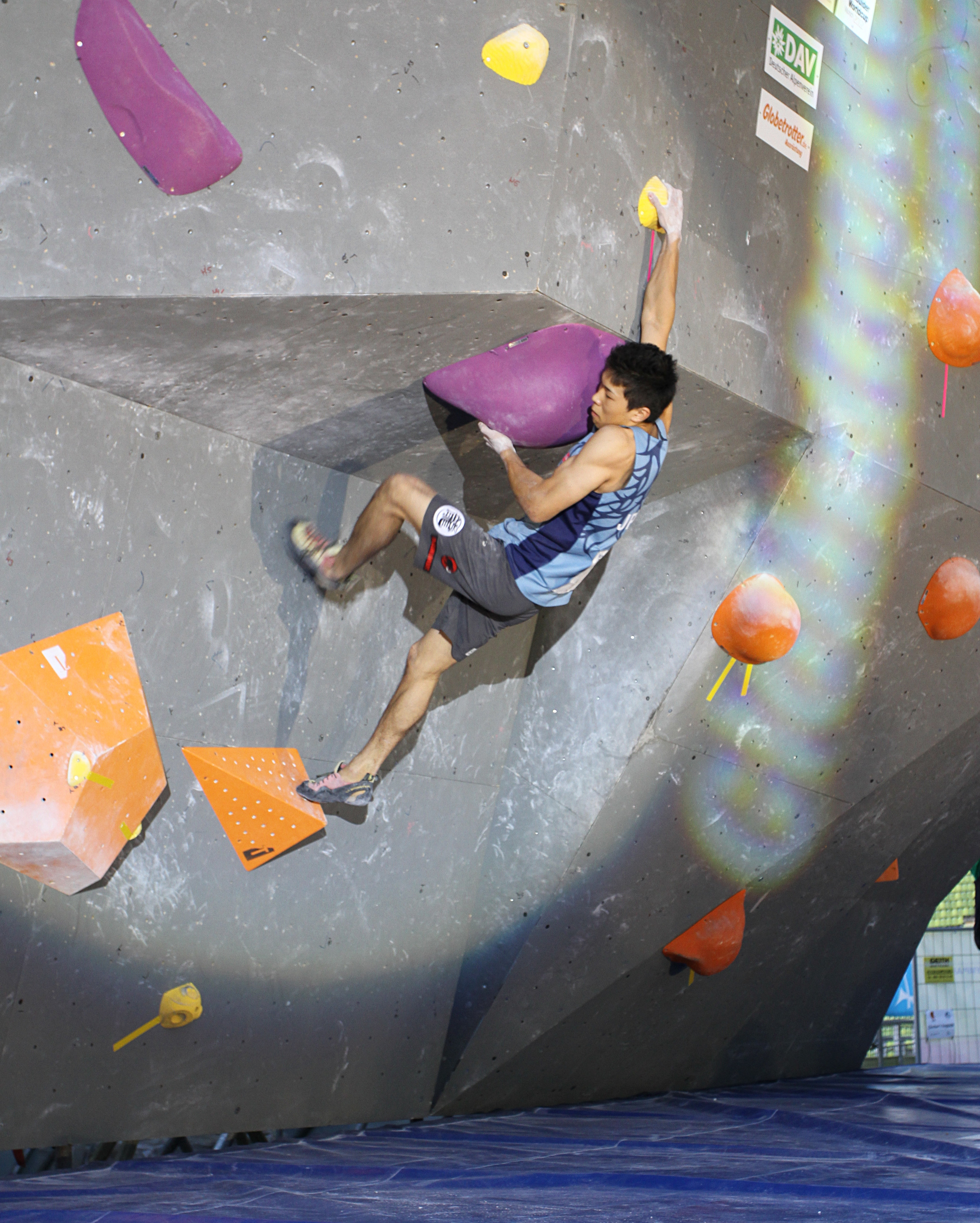 Rel Sugimoto, JPN at the Boulder Worldcup 2012 in the Munich Olympic stadium